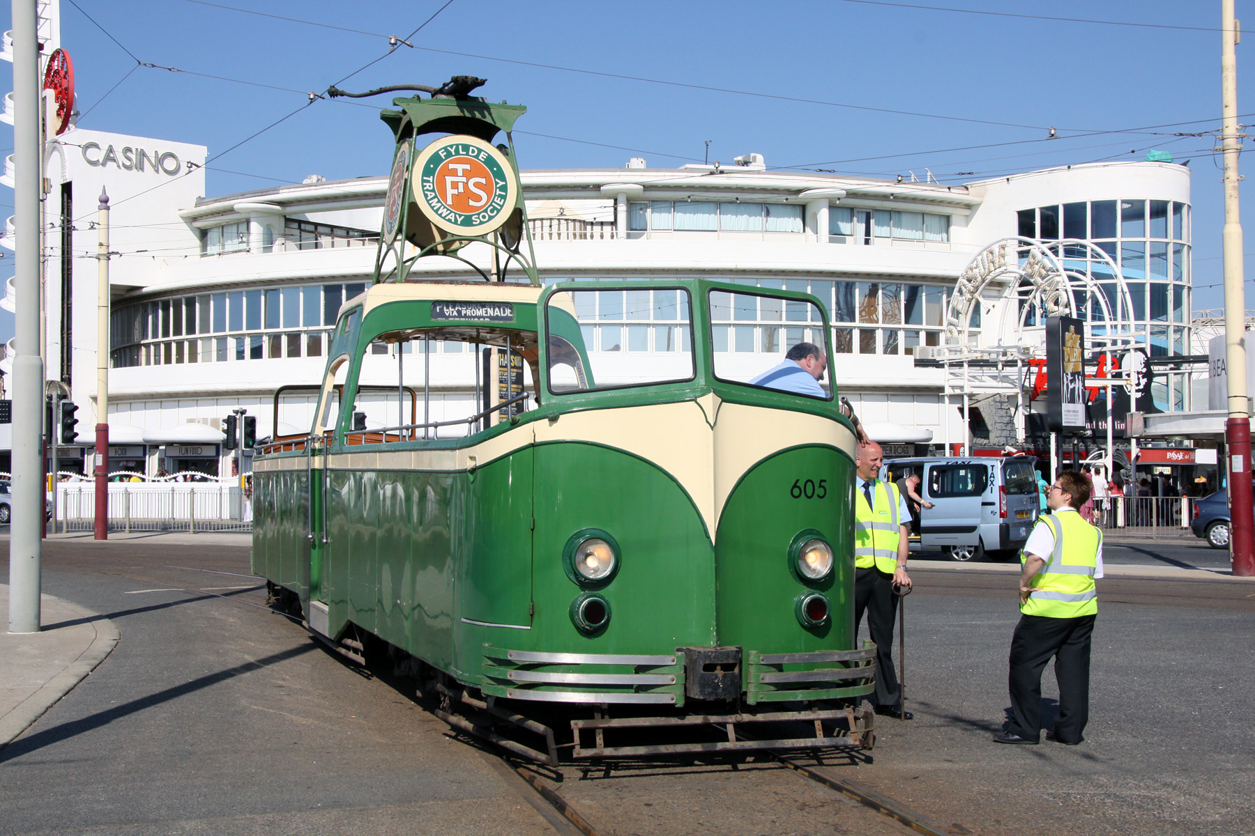 Blackpool Transport Services Limited car number 605, an English Electric Company Limited ?Open Boat? single deck bogie car with English Electric 4' wheelbase equal wheel bogies, two English Electric 327 40 horse power motors and English Electric Z controllers with an English Electric OB52C body built 1934 stands on the turning circle by the Pleasure Beach, Blackpool after working an extra service from Talbot Square tram station. Sunday 31st May 2009